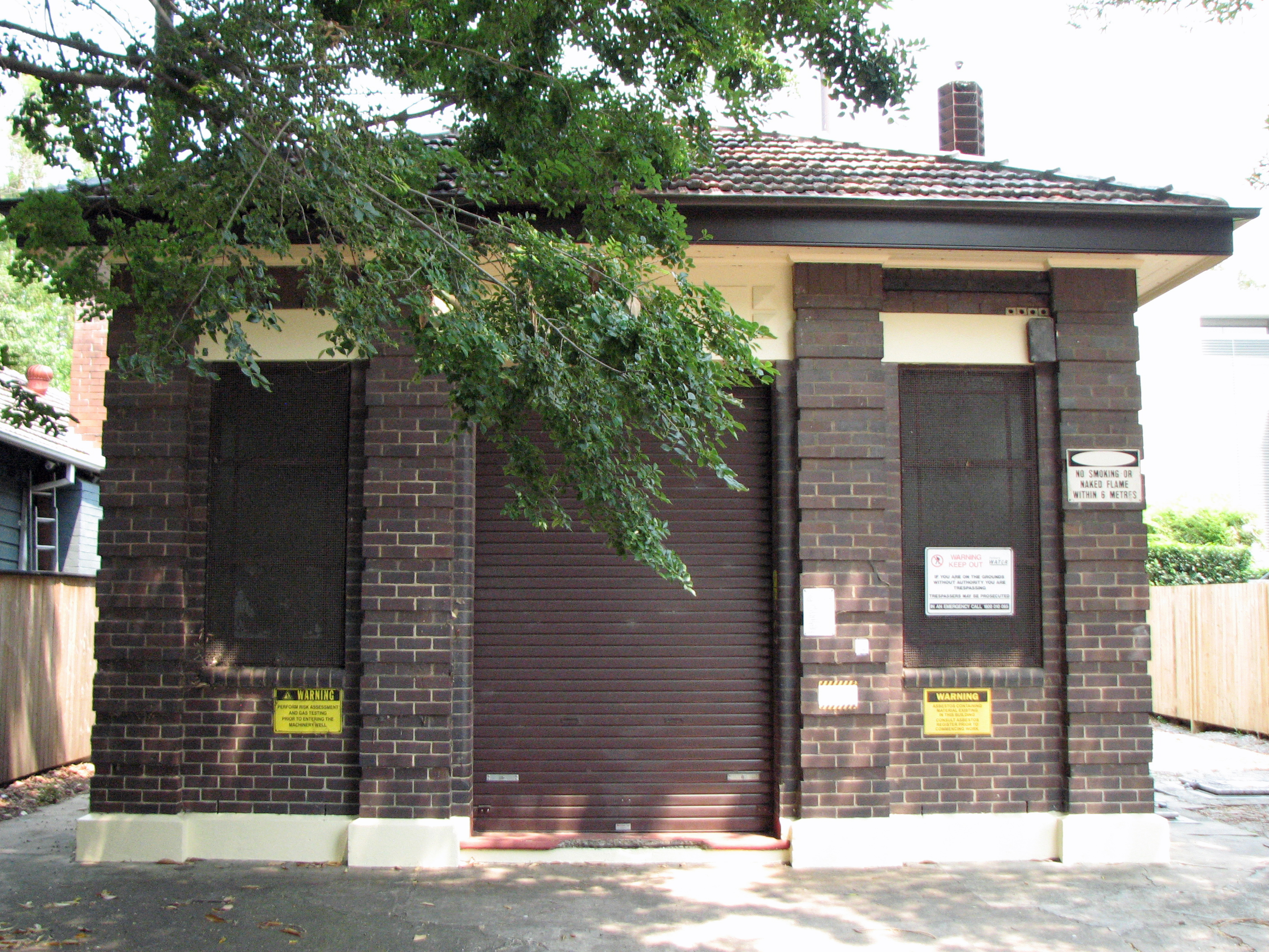 Double Bay Compressed Air Ejector Station is listed on the New South Wales State Heritage Register. The building is a former former sewage pumping station (SPS87) and now decommissioned sewerage infrastructure